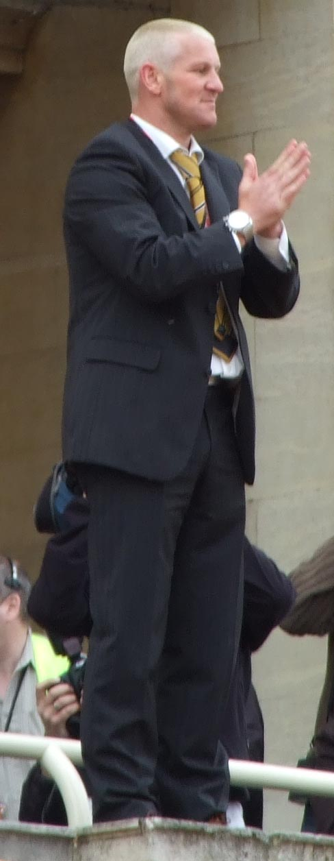 Dean Windass celebrates on the balcony of Hull City Hall following Hull City's Championship playoff victory.